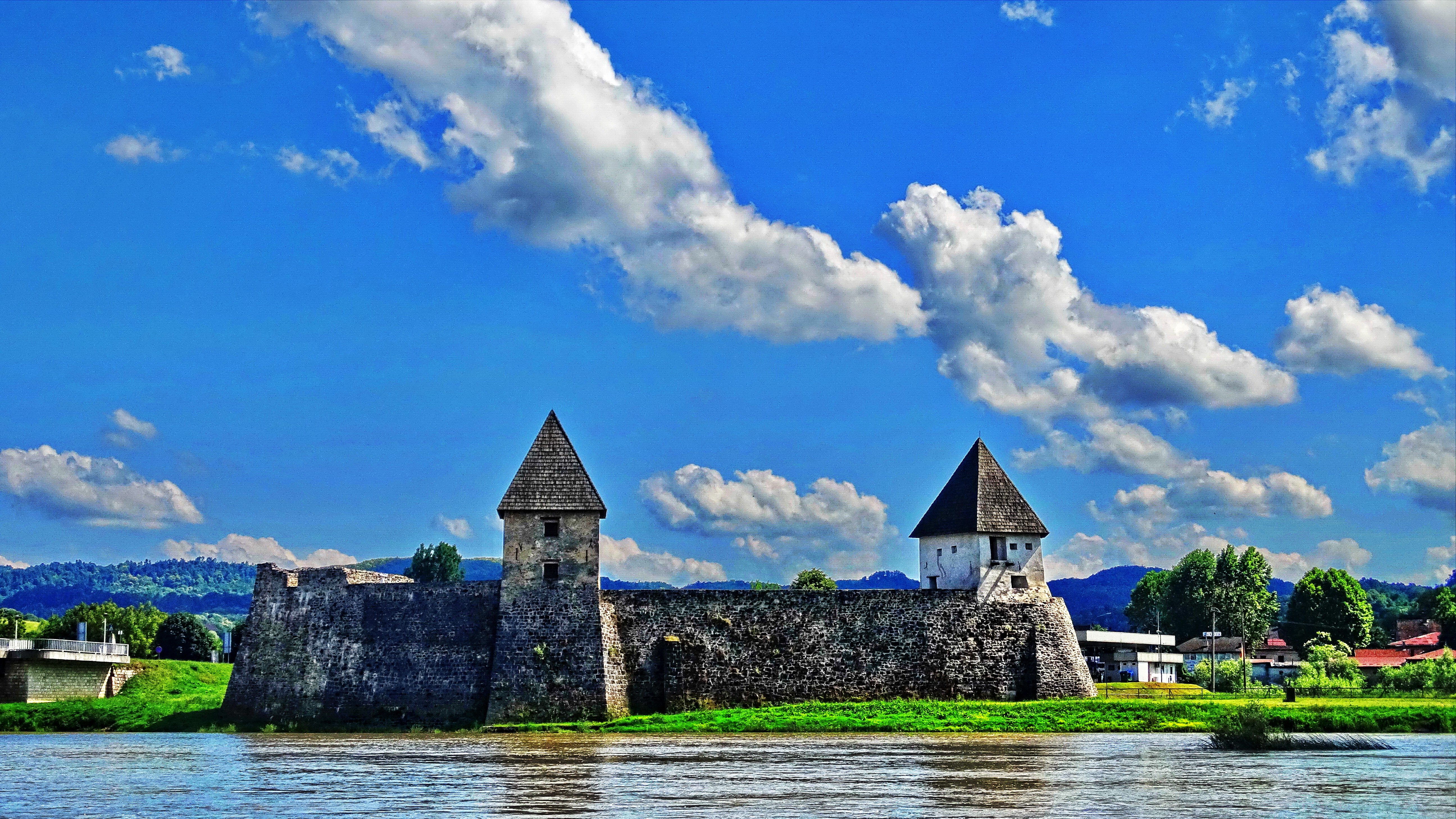 Z-4414 Old town Zrinski - Kostajnica